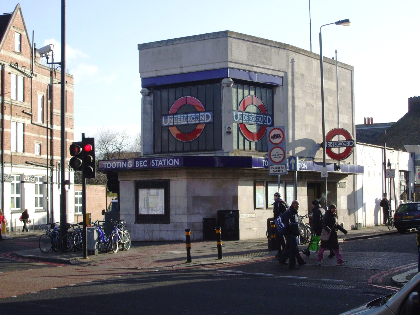 Tooting Bec Underground station eastern entrance.